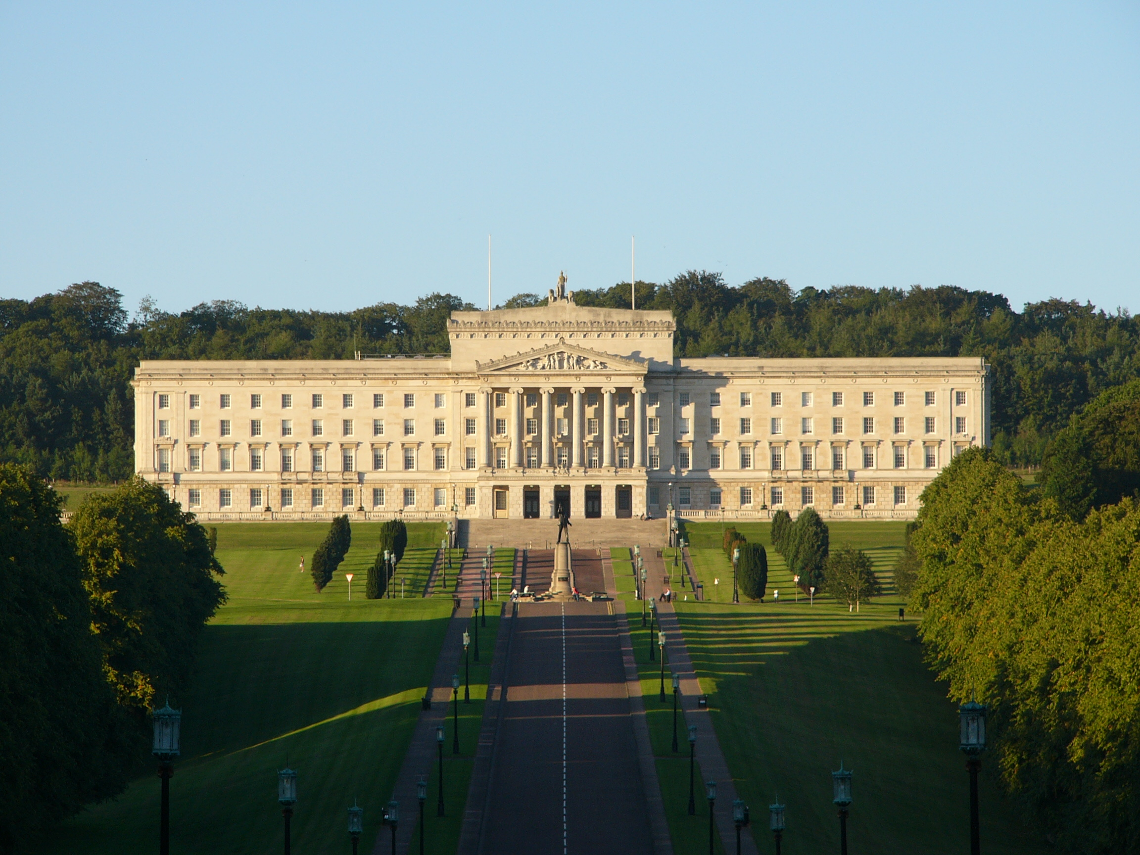 General view of Parliament Buildings